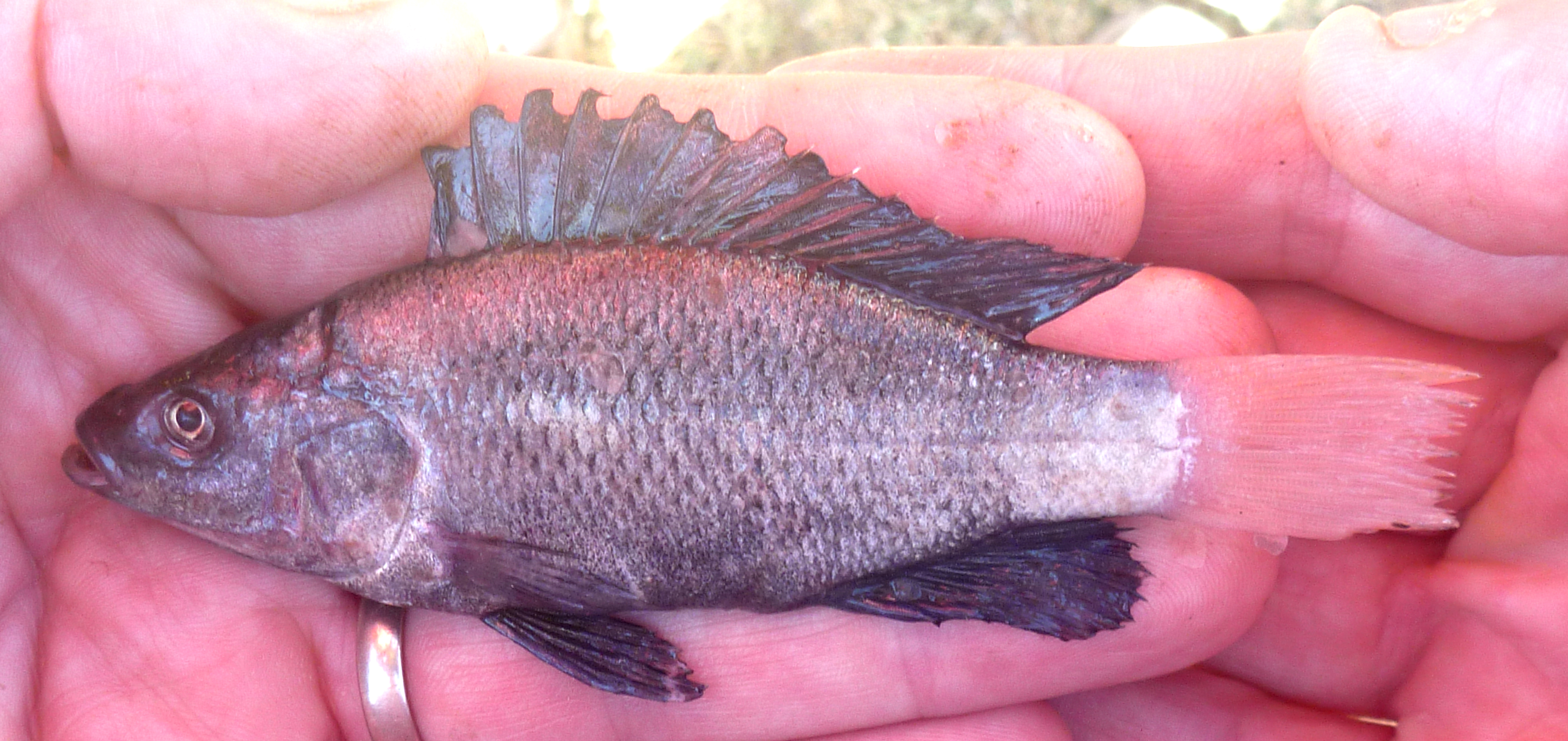 Male Oreochromis amphimelas freshly collected from Lake Manyara